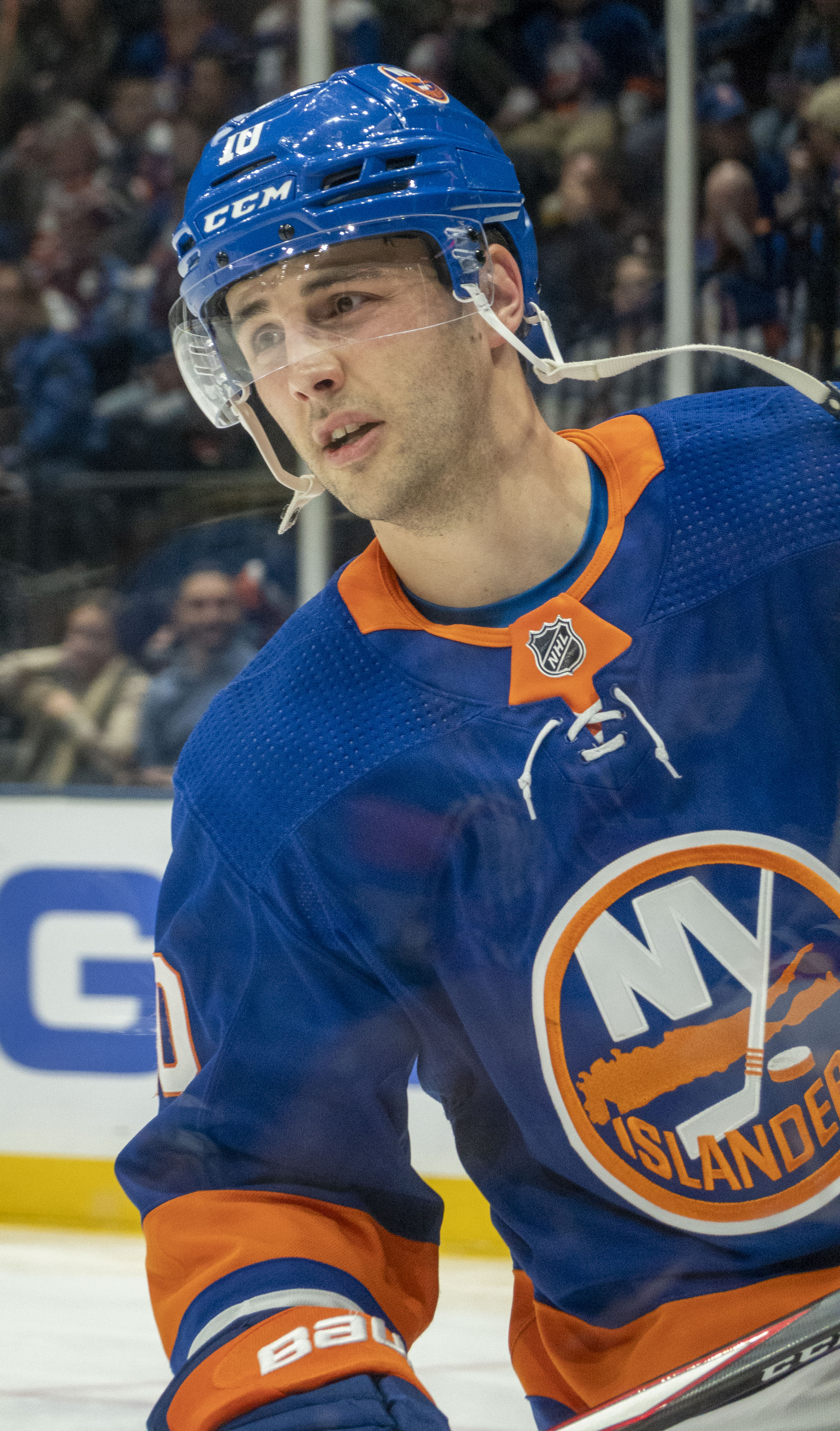 Derick Brassard playing with the Islanders vs Avalanche on January 6, 2020